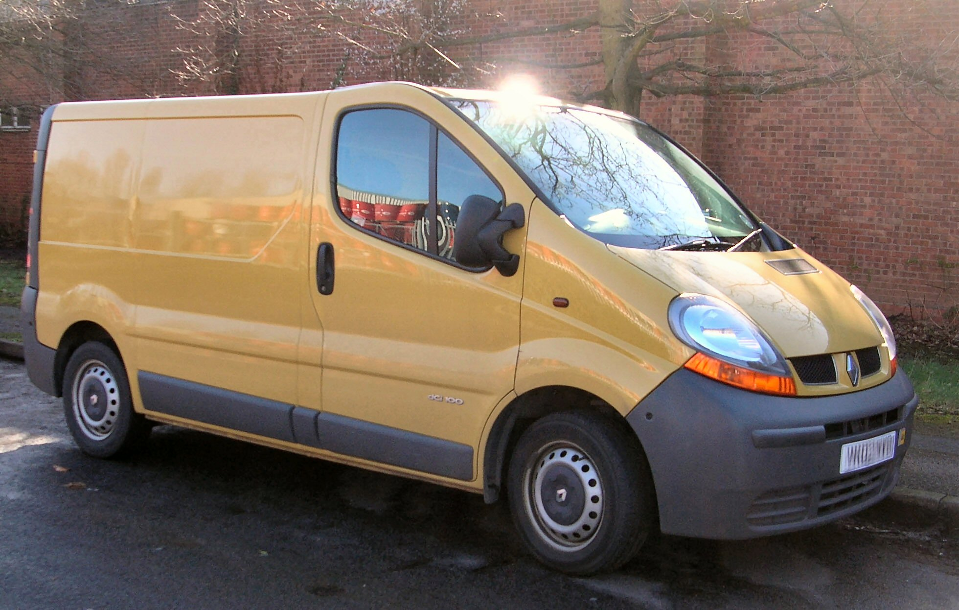 A 2002 Renault Trafic dCi 100